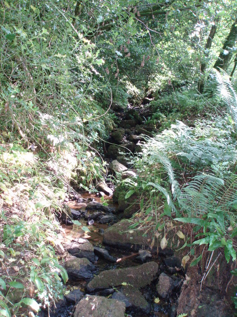 Molly Brook. This small brook descends rapidly through Harptree combe (this is at the top end of the combe) and eventually runs into Chew Valley lake, Somerset